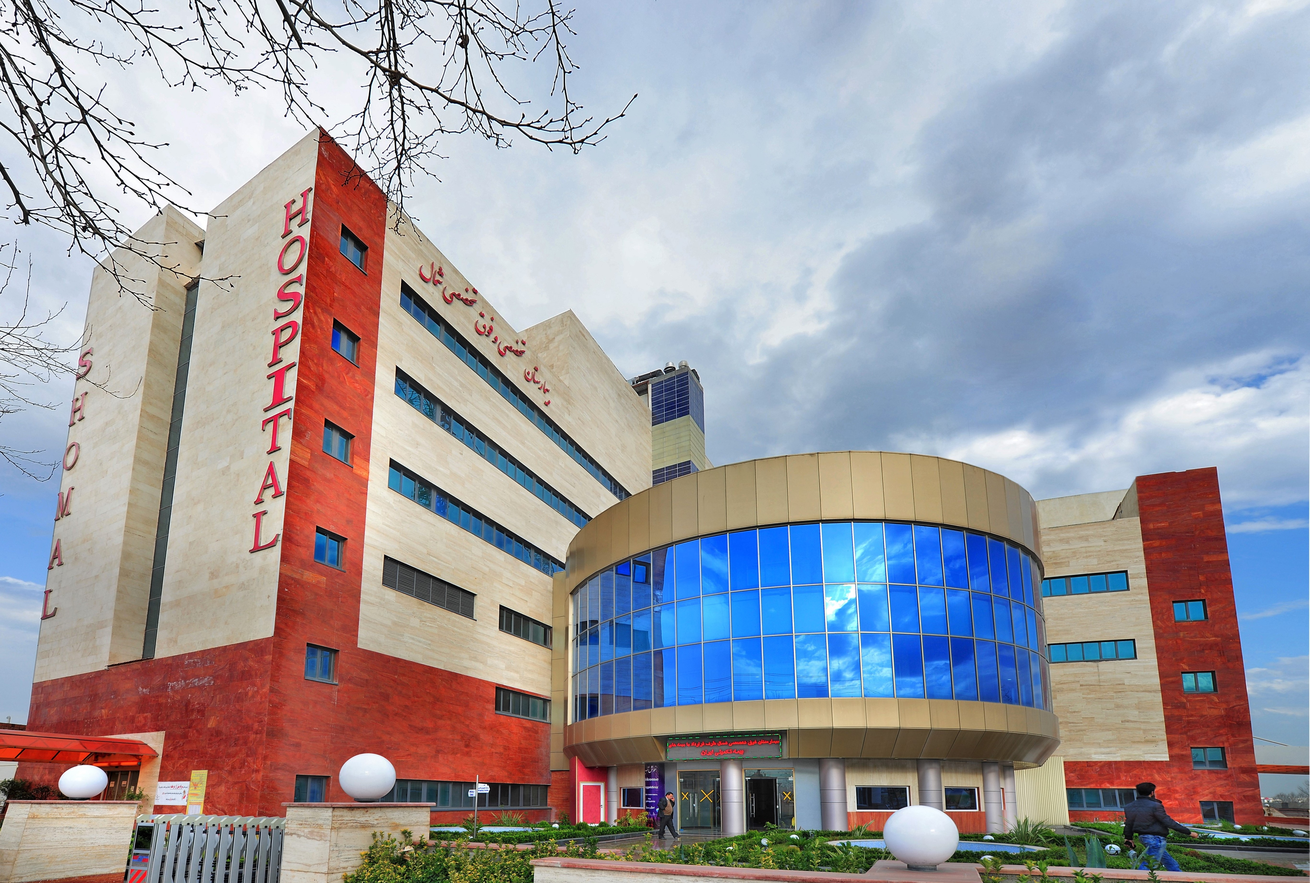 Specialized and specialist hospital Shomal